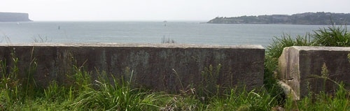 View from the 1803 Georges Head battery to Sydney Heads